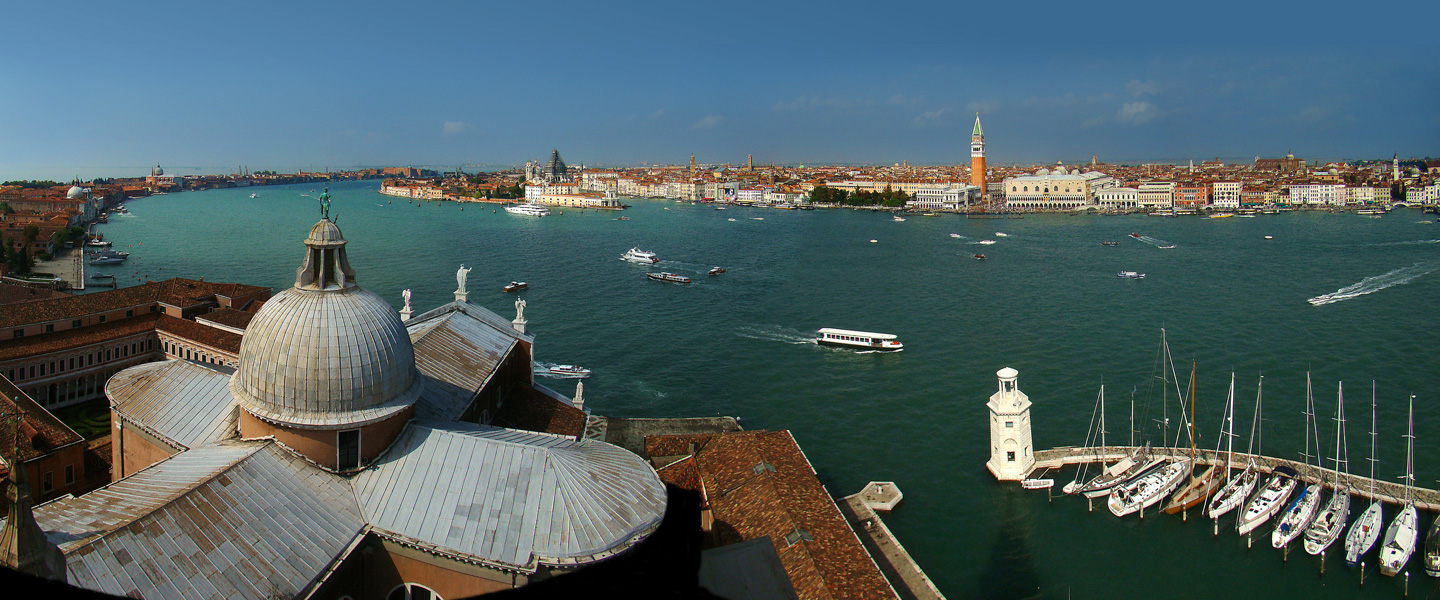 Venice, Veneto, Italy. Panorama from the top of the San Giorgio Maggiore Basilica's campanile. On the right the Saint Mark's Basin, continued to the left by the Giudecca Canal. On the opposite bank, the Saint Mark's Square.